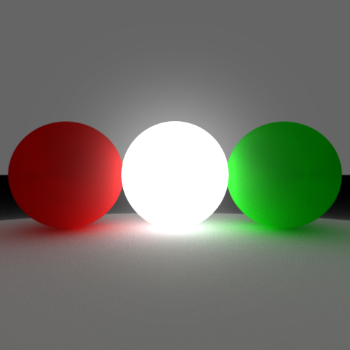 An image created by simple ray tracing and simple path tracing a similar scene. Note the soft phenomena in the path traced version.